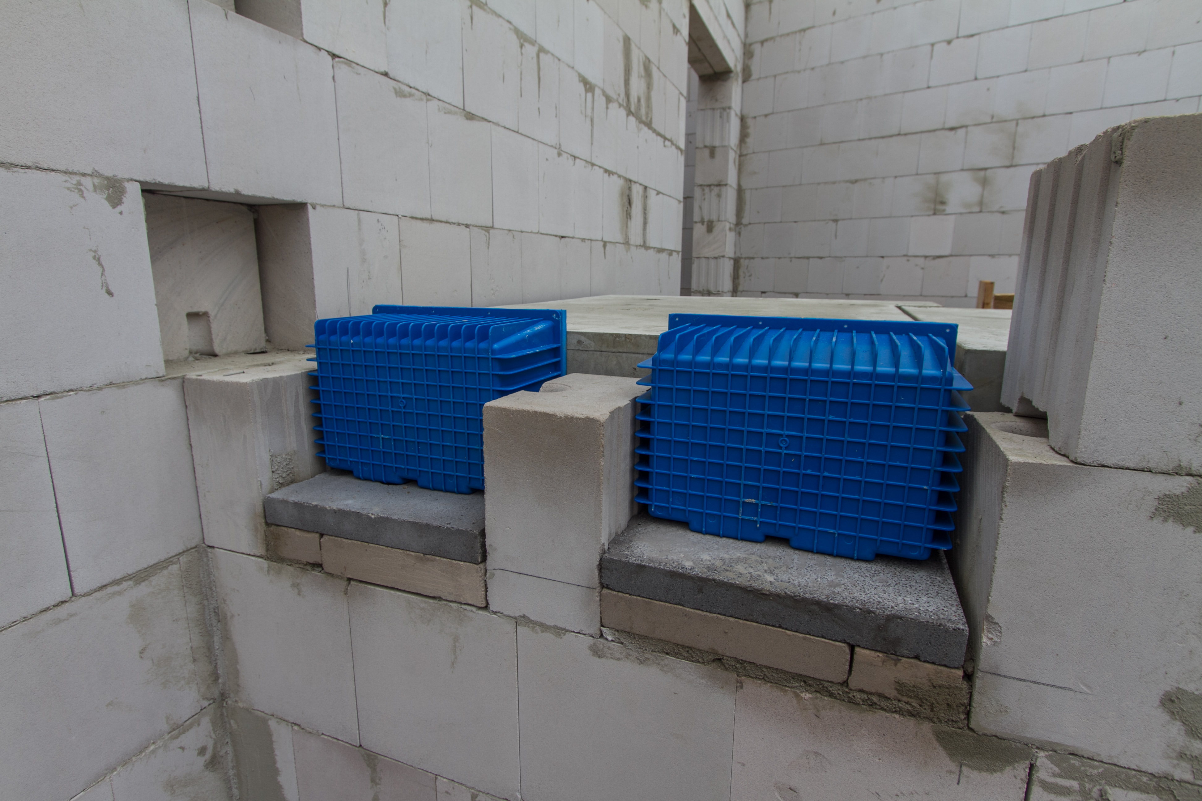 Footfall sound insulation (impact noise isolation) for a precast concrete stair landing. Isolated bearings Schöck Tronsole during installation.